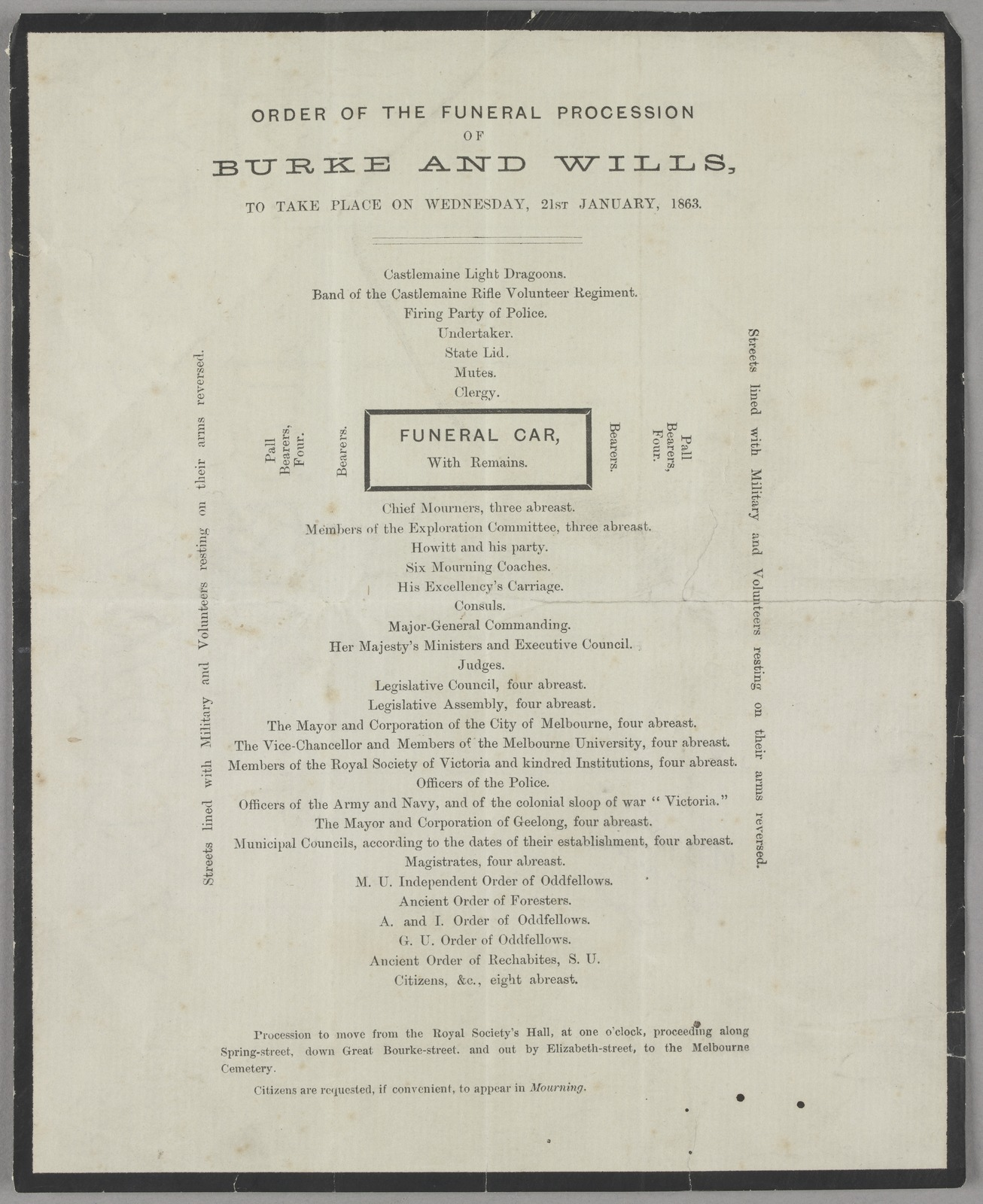 Printed order of funeral procession of Burke and Wills. Document sets out which groups and individuals are included in proceedings, and describes which streets procession takes.